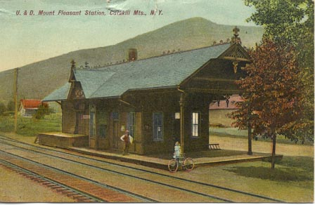 This is the station at Mount Pleasant, 1902.